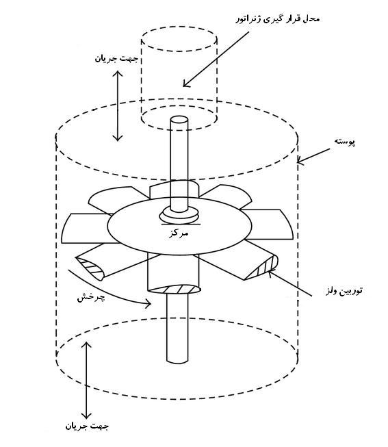 wells turbins